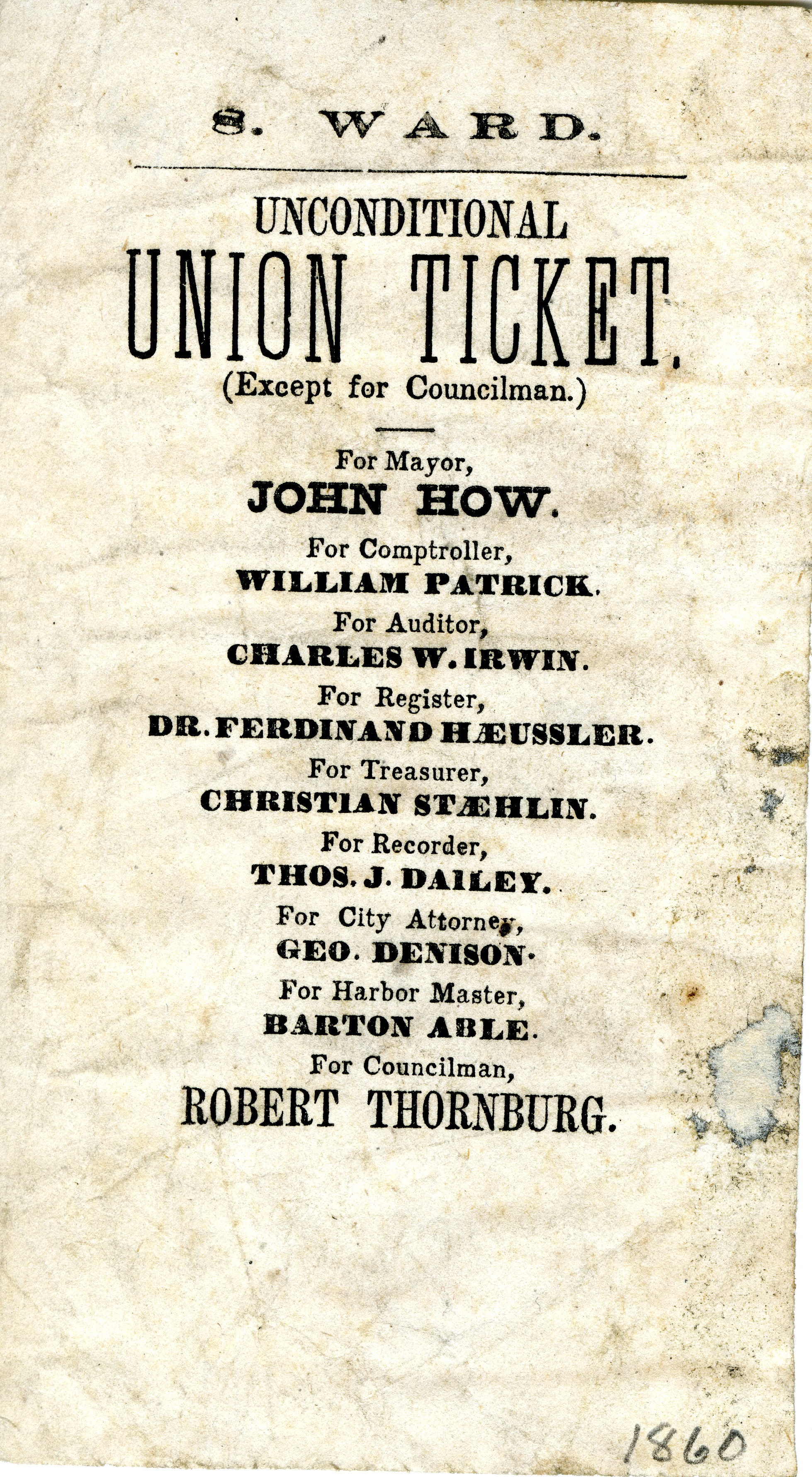 Title: Political party ticket (St. Louis): "8. Ward Unconditional Union Ticket (Except for Councilman)," 1860